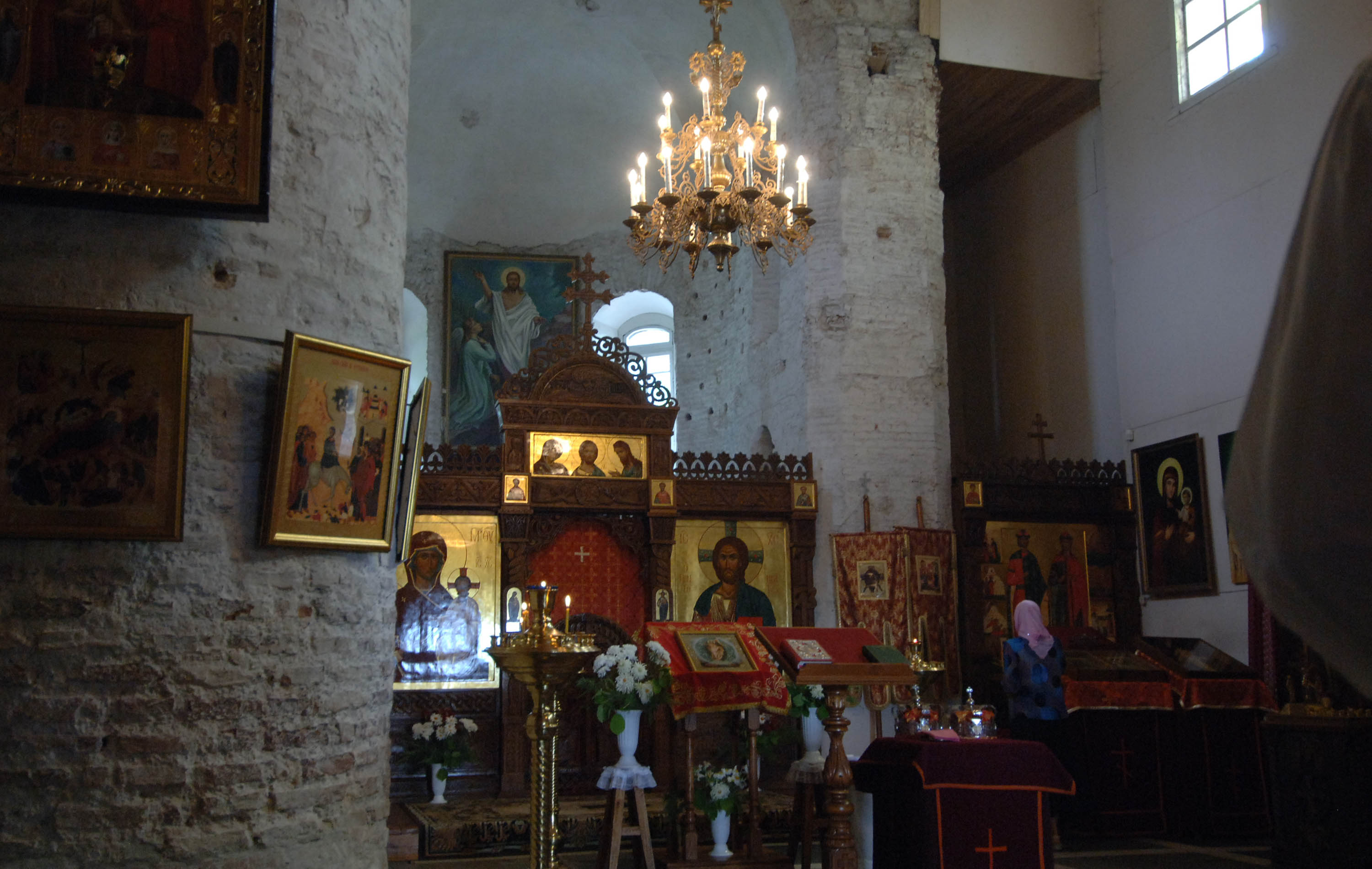 SS BORIS & HLIB (GLEB) CHURCH; STONE PART DATES FROM THE 12TH C MAKING IT THE 2ND OLDEST CHURCH IN THE COUNTRY. THIS IS THE INTERIOR OF THE CHURCH WHICH IS DECORATED FOR WEDDINGS.